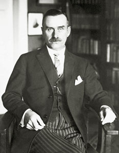 German writer Thomas Mann in 1926